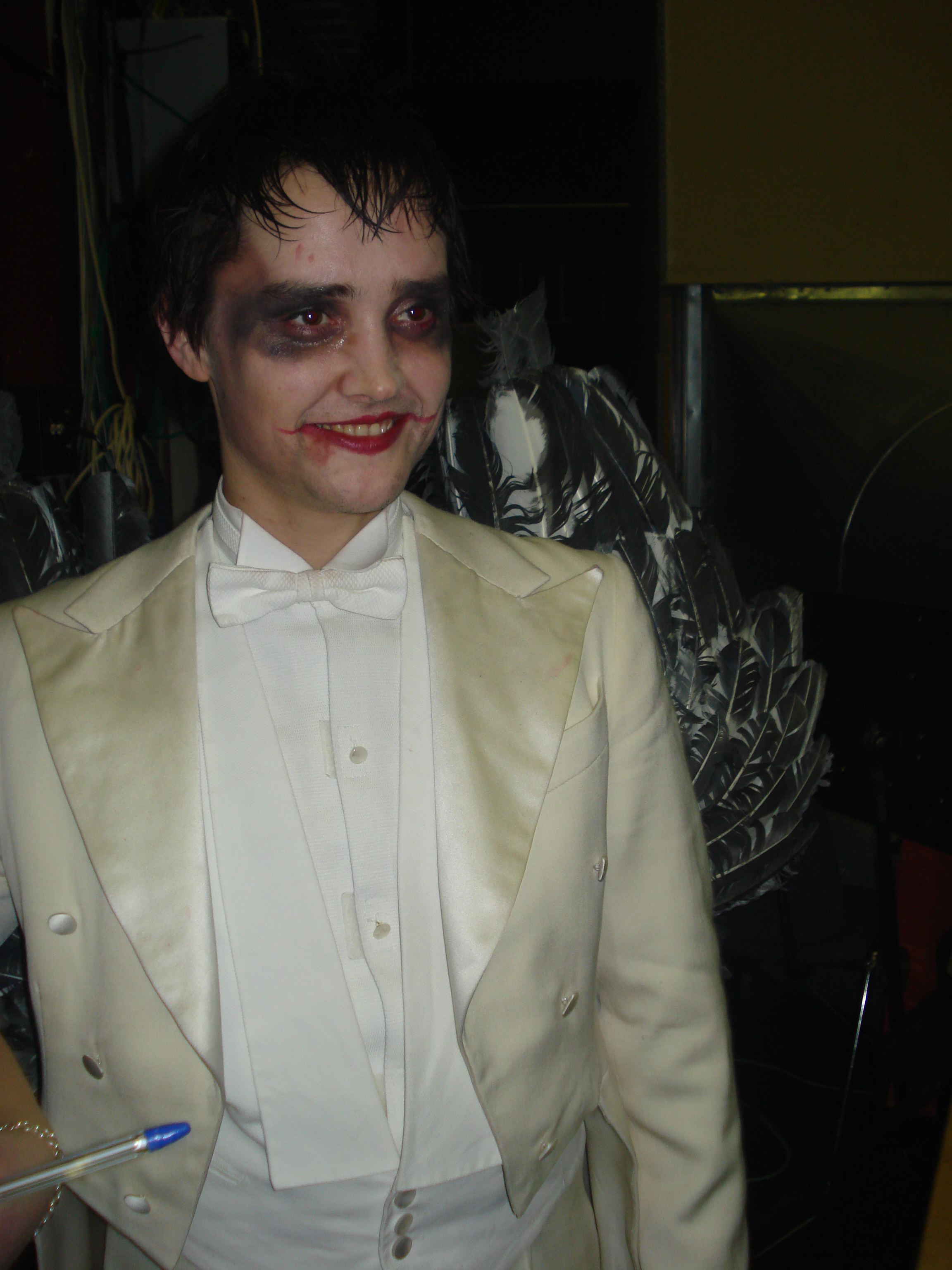 Picture of Frank Kjosås after the last show of "Jesus Christ Superstar" at Det Norske Teatret